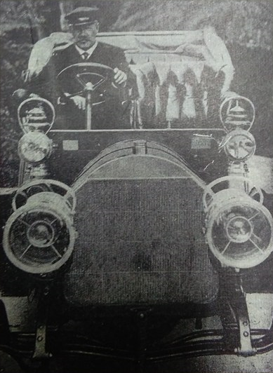 Afonso of Braganza, Infante of Portugal, in one of his potent automobiles.